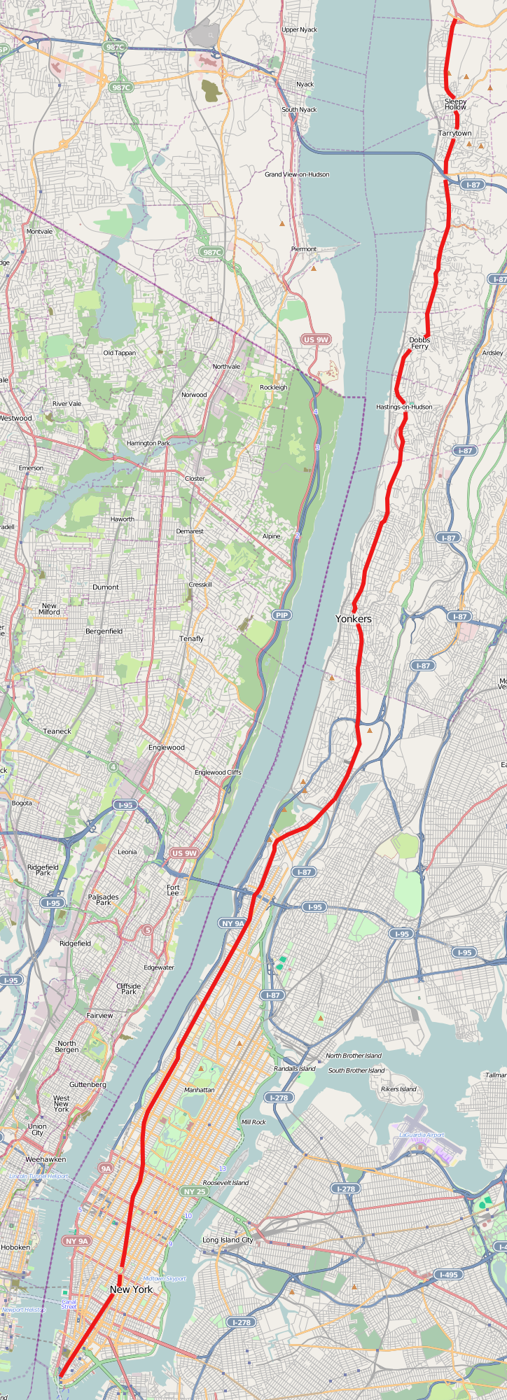 Map of the Broadway This map may be incomplete, and may contain errors. Don't rely solely on it for navigation.